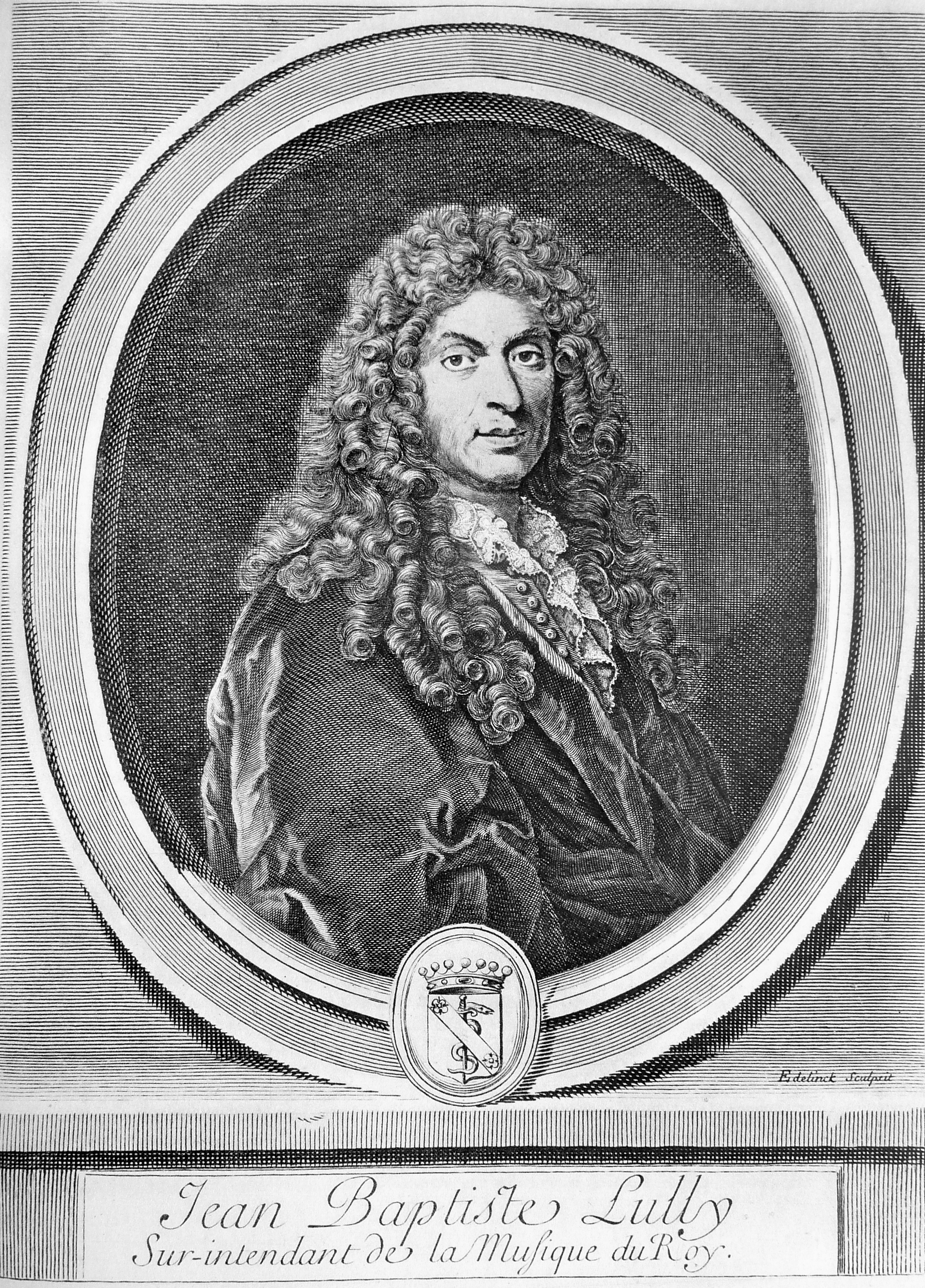 Jean-Baptiste Lully, Kupferstich von Edelinck